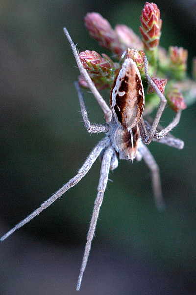 male Pisaura mirabilis from Commanster, Belgian High Ardennes .